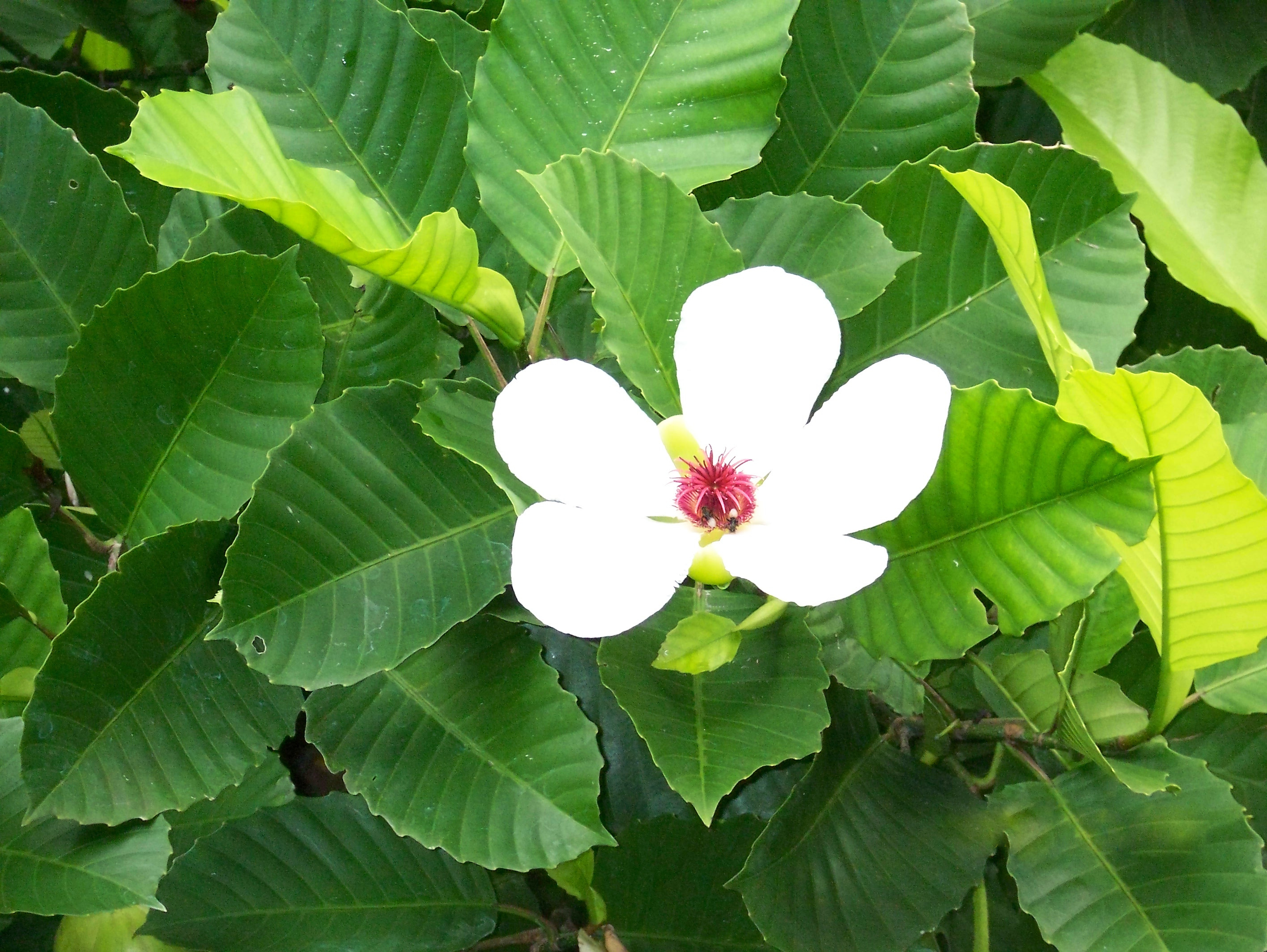 The flower is Dillenia philipinensis ... My thanks to scott.zona for the ID. From Wikipedia - Dillenia is a genus of about 100 species of flowering plants in the family Dilleniaceae, native to tropical and subtropical regions of southern Asia, Australasia, and the Indian Ocean islands. The genus is named after the German Botanist Johann Jacob Dillenius, and consists of evergreen or semi-evergreen trees and shrubs. The leaves are simple, spirally arranged The flowers are solitary, or in terminal racemes, with five sepals and five petals, numerous stamens and a cluster of 5-20 carpels; they are superficially similar in appearance to Magnolia flowers.